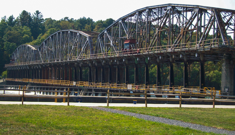 Guy Park